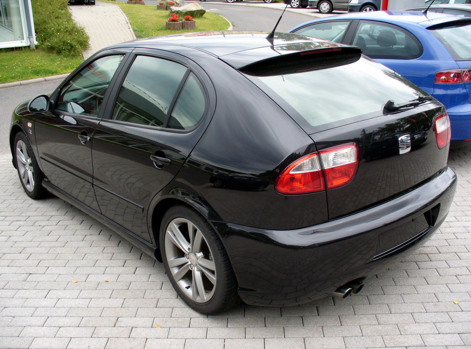 Seat Leon FR